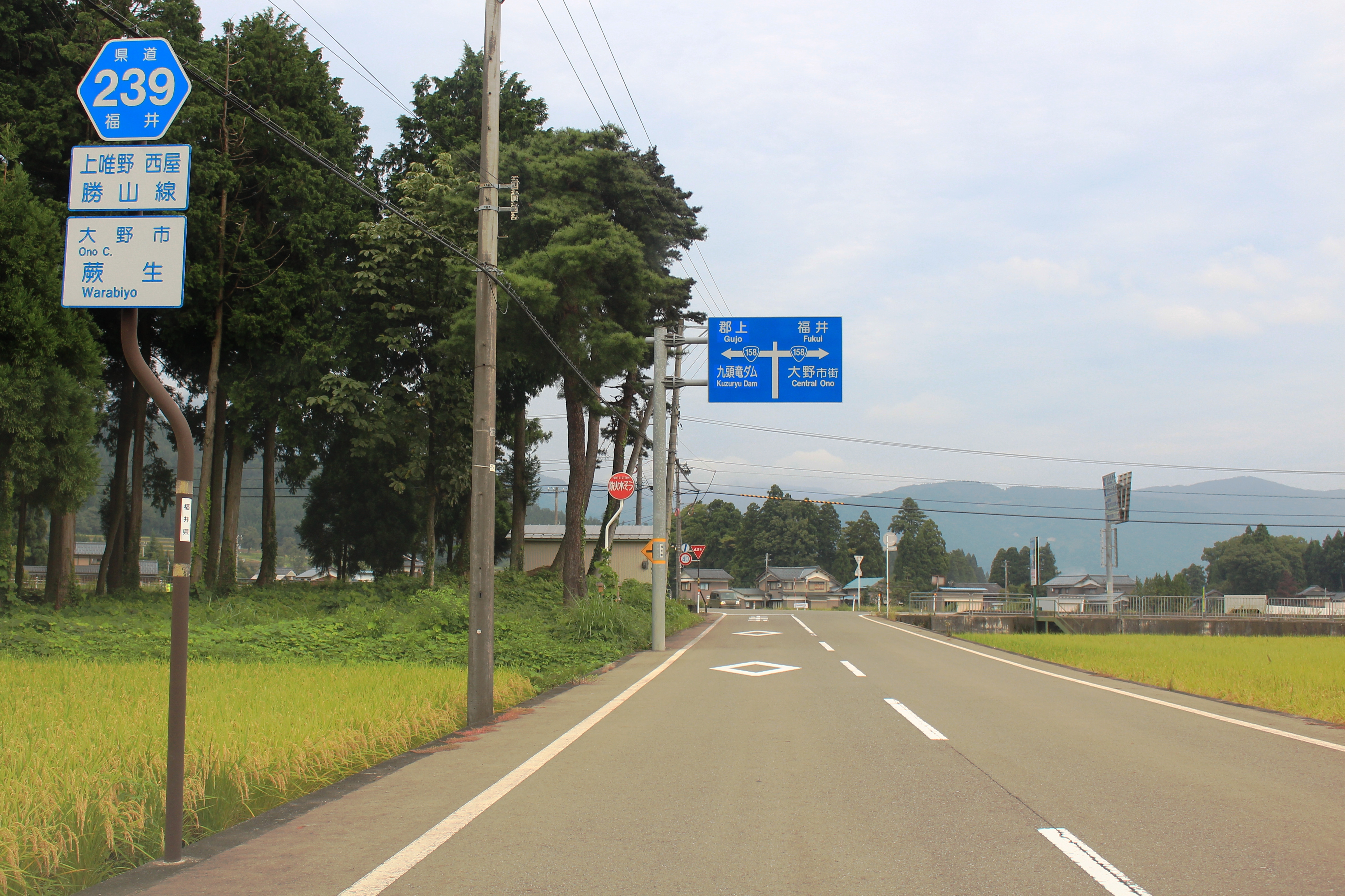 Fukui Prefectural Road Route 239 in Warabiyo, Ono, Fukui prefecture, Japan.